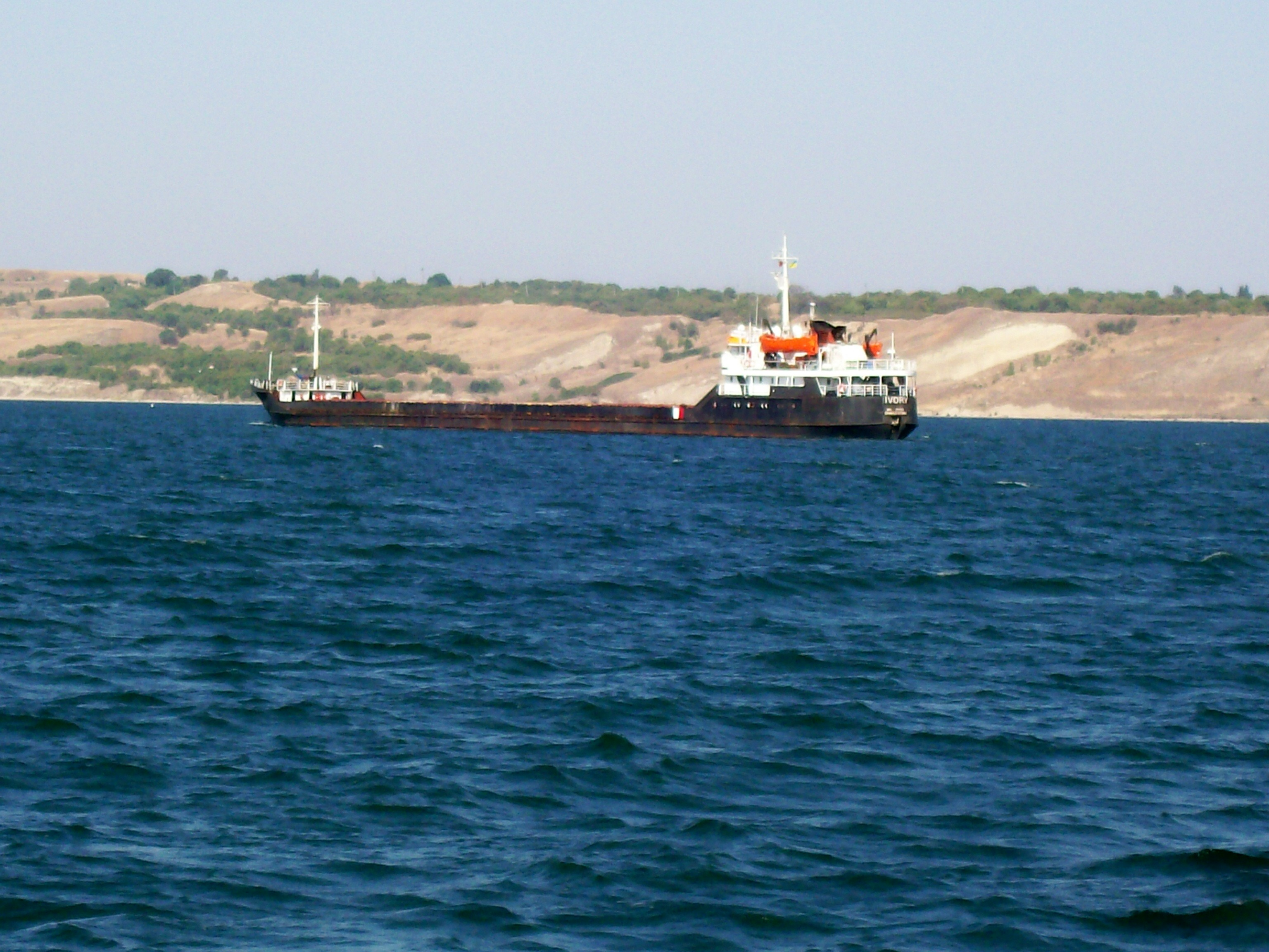 The dry-cargo ship "Ivory" (1557 project "Sormovsky") in the Strait of Kerch, august 2007.